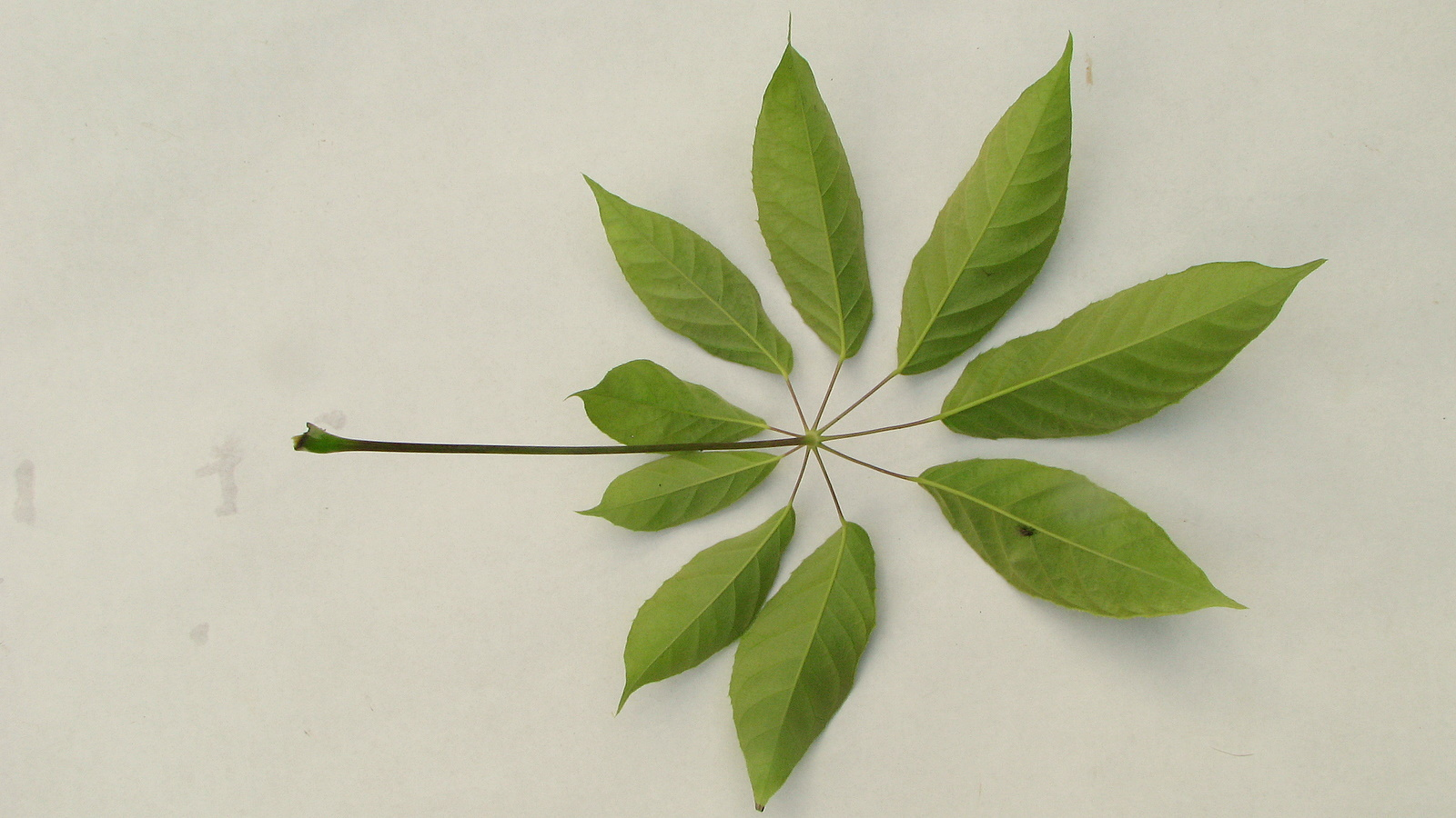 Schefflera morototoni (Aubl.) Maguire, Steyerm. & Frodin